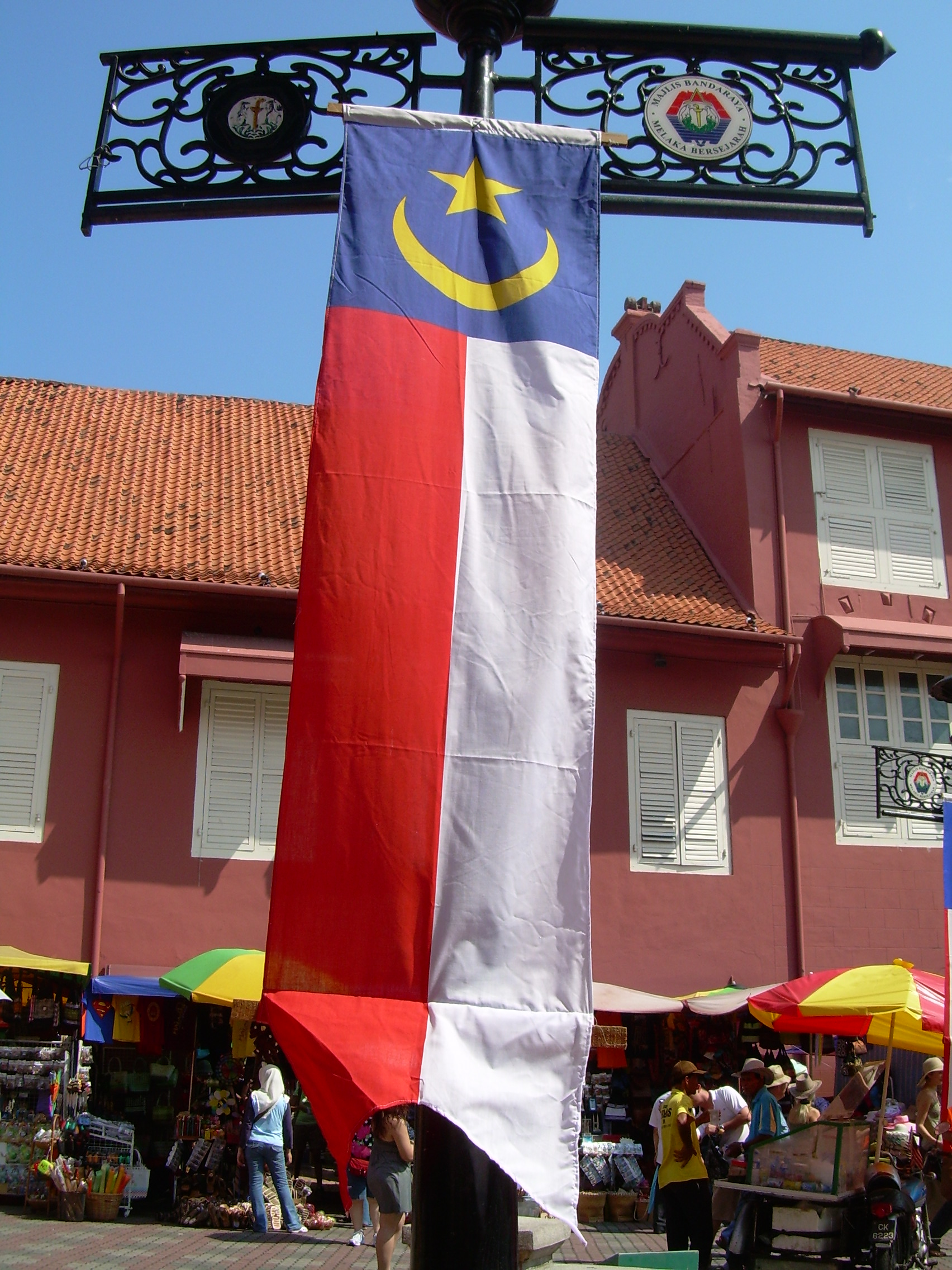 Malacca state flag hanged in streets of Malacca